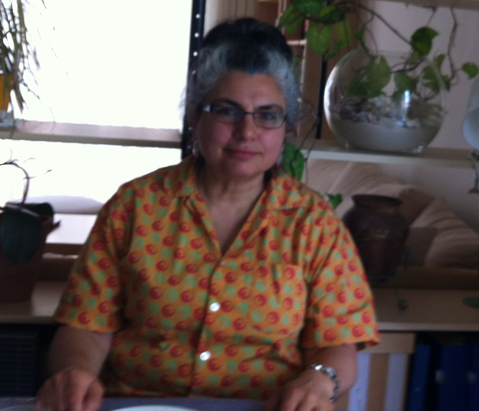 I took this picture after a speech in Zürich about her film.